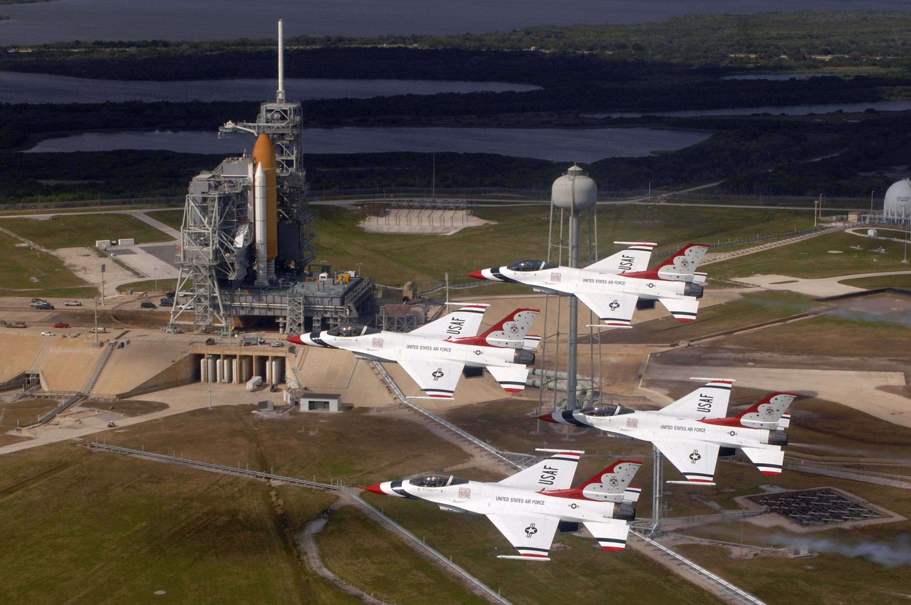 As the Space Shuttle Endeavour awaits launch on STS-123, the USAF Thunderbirds aerobatic display team perform a flypast of LC-39A in commemoration of NASA's 50th anniversary.